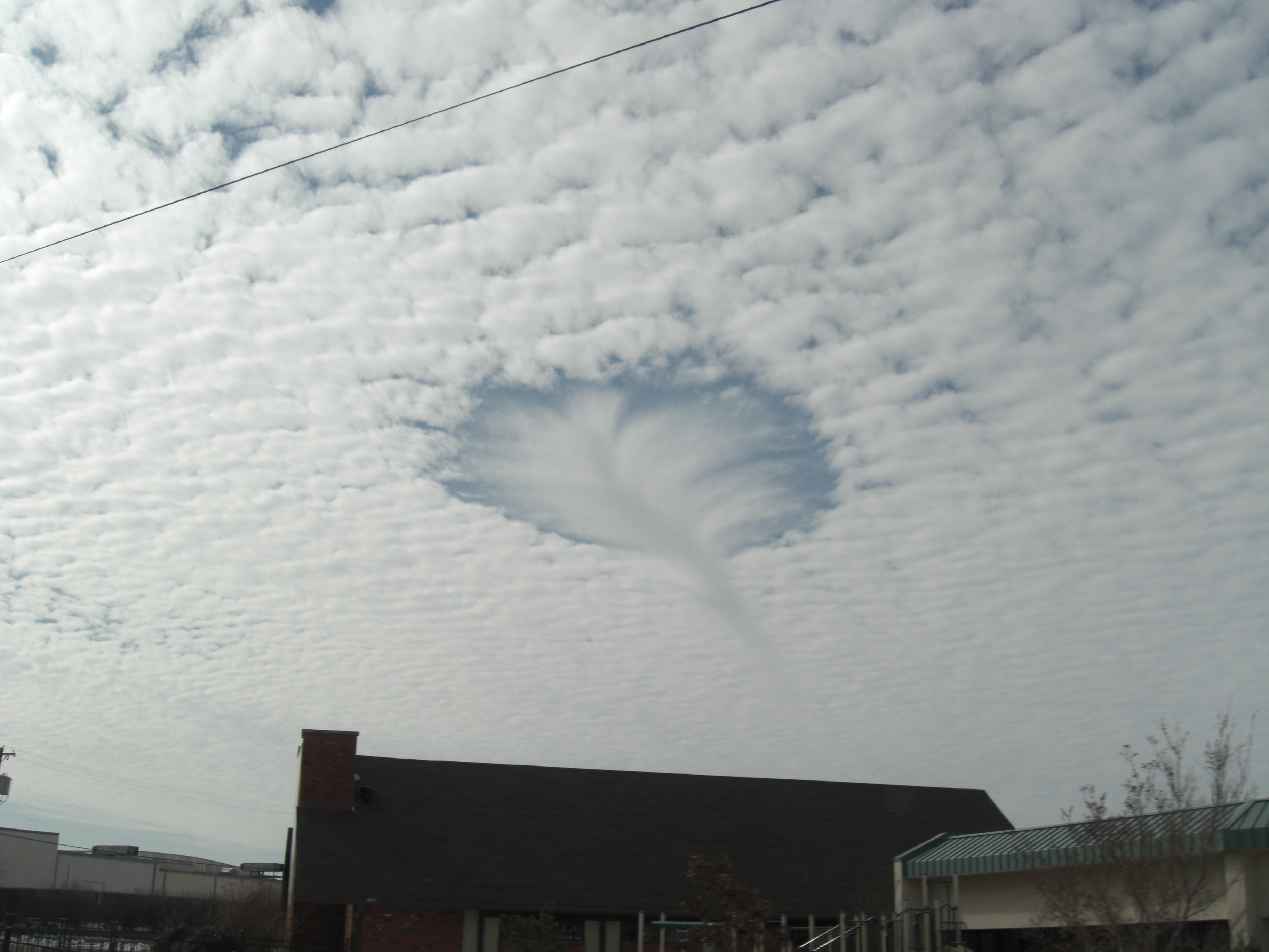 A fallstreak hole that was seen over Oklahoma City on January 2, 2010